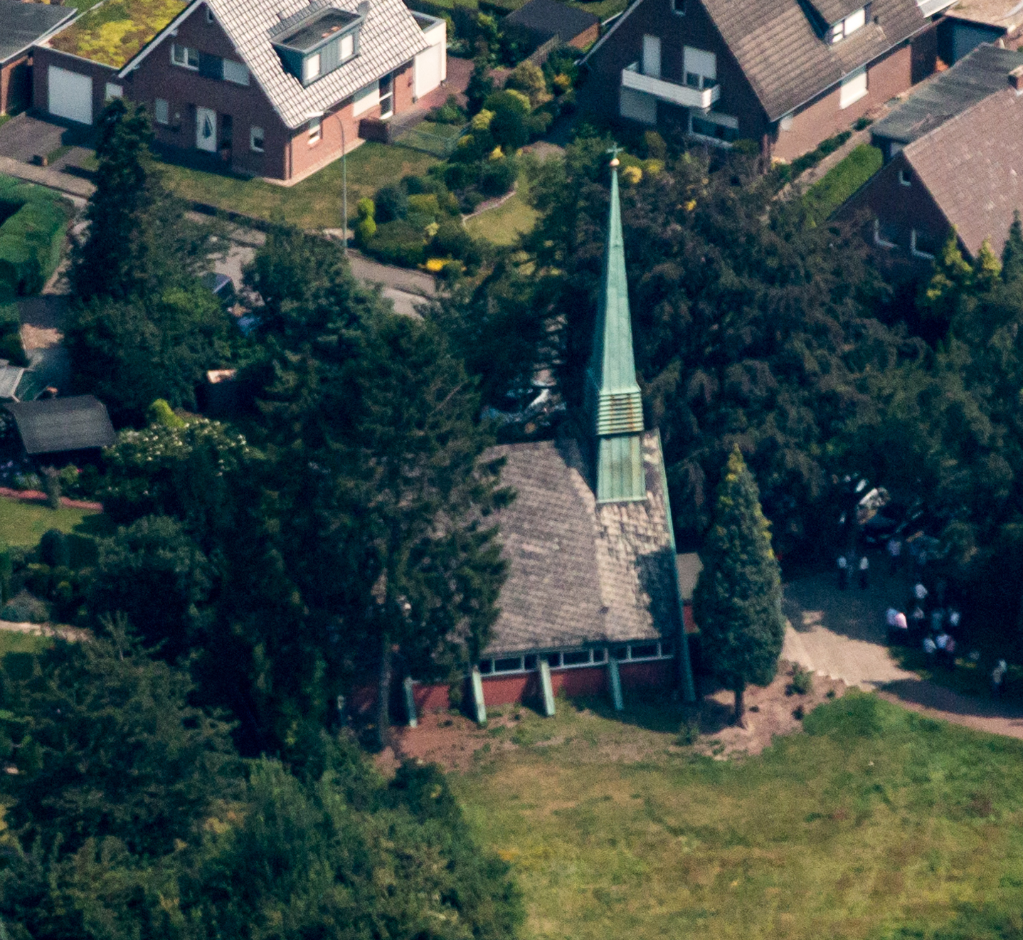 Protestant church, Burlo, Borken, North Rhine-Westphalia, Germany